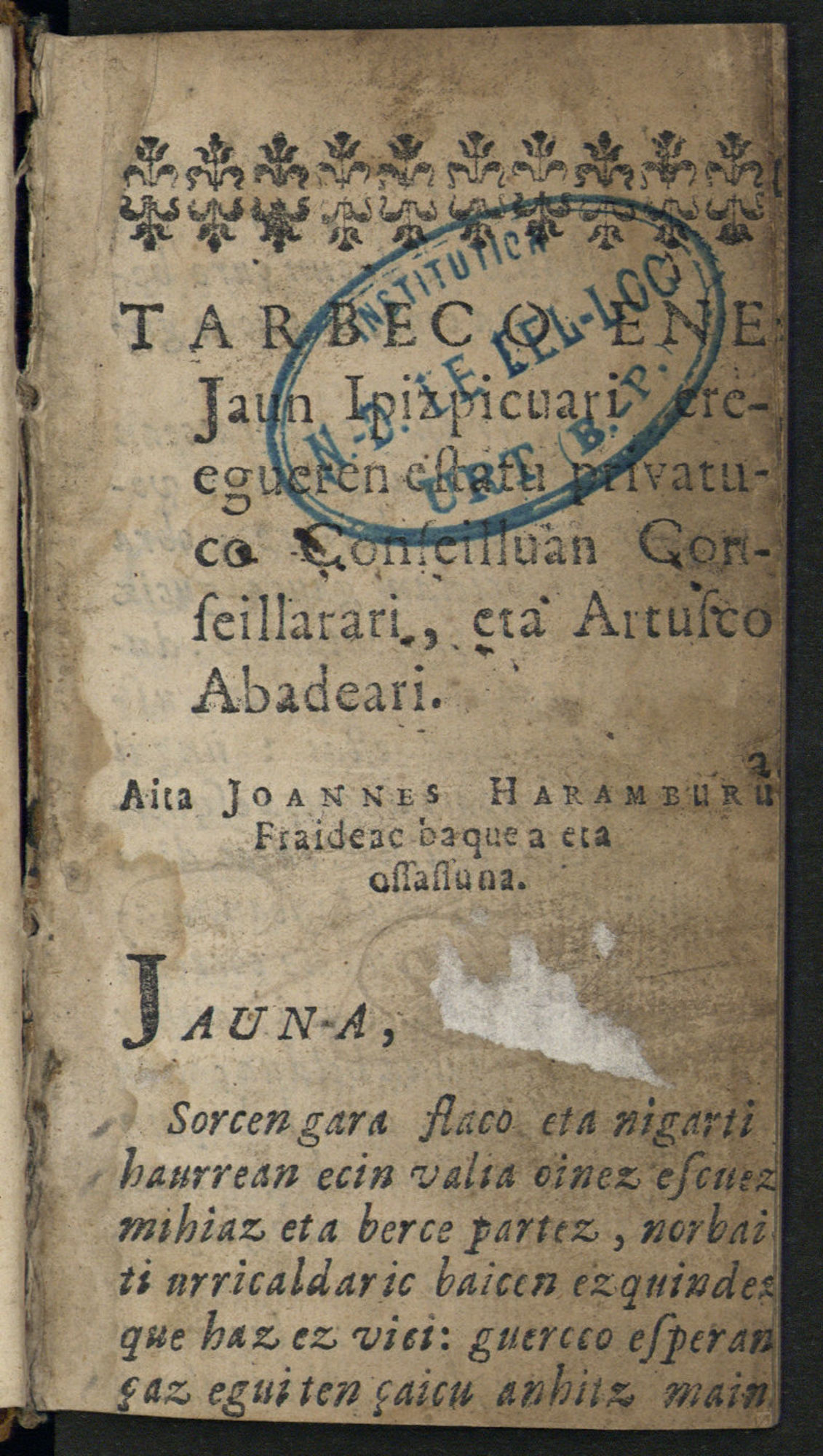 A page from the book Debocino escuarra from 1635 by Joannes Haranburu